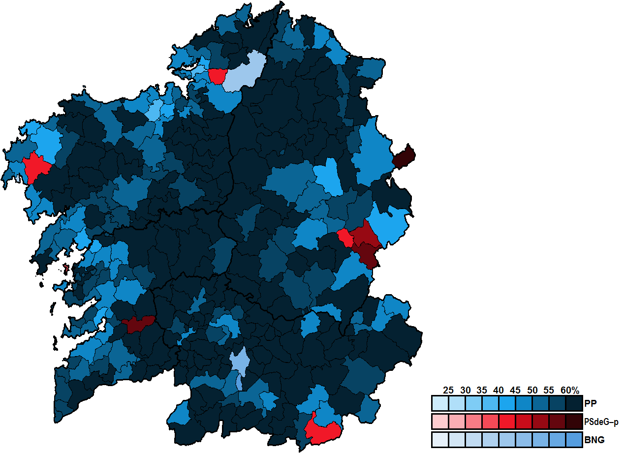 Most-voted party in Galicia municipalities, showing vote share obtained, in the Spanish general election, 2000.